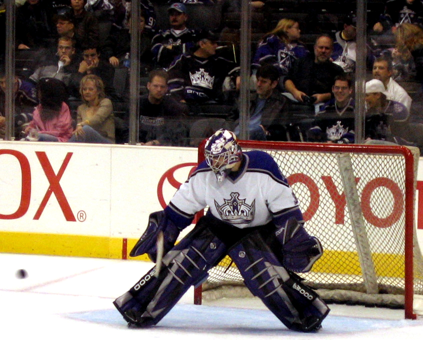 Goaltender Jason LaBarbera, Warm-up vs Dallas Stars at Staples Center, Los Angeles, CA. Photograph by Matthew McPherson, 02-Jan-2006